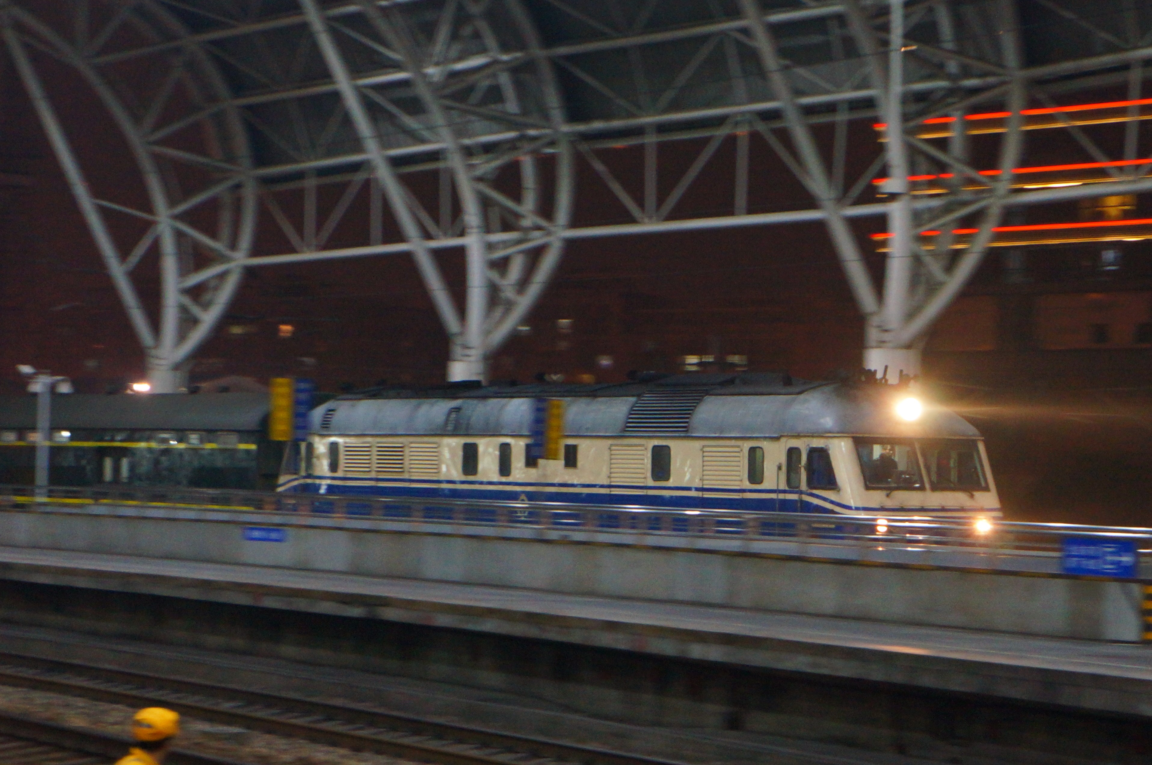 201812 DF11 hauls K723 from Nantong to Kunming enters into Nanjing Station